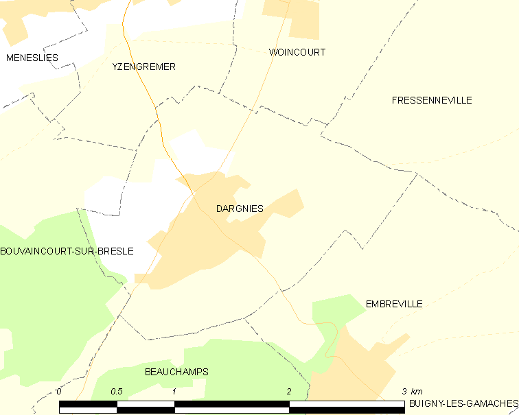 Map of French municipality Dargnies